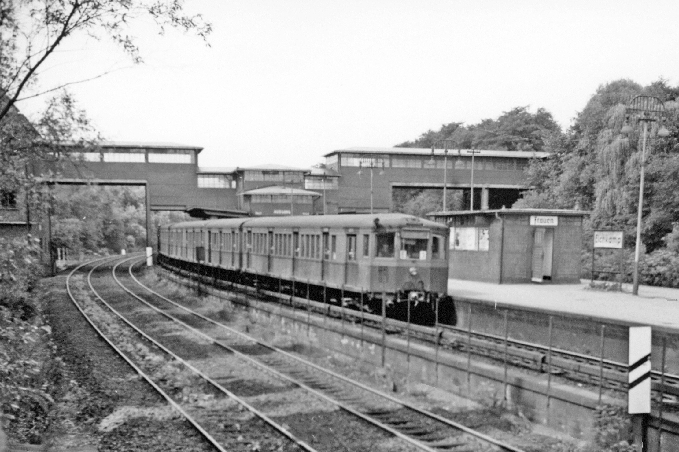 West Berlin, 1961: Stadtbahn train at Eichkamp.